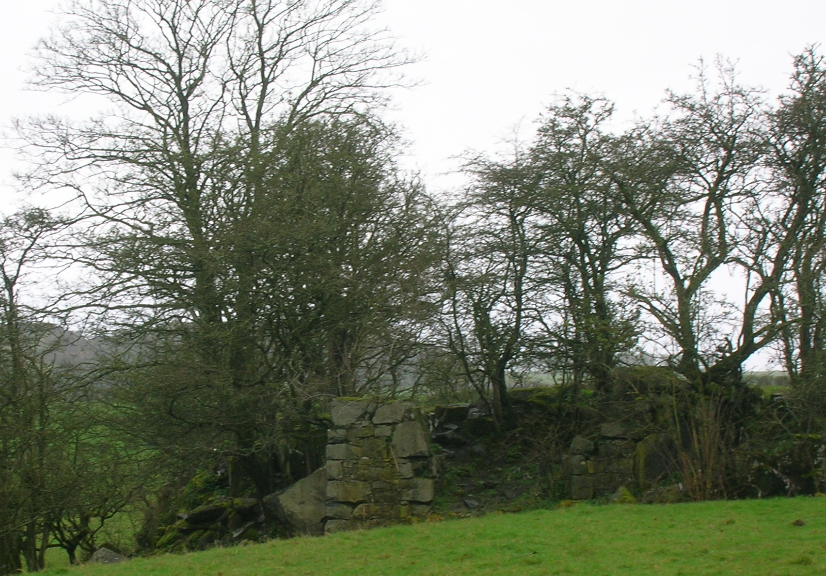 Old limekiln at the Slough of Despond, Slough Burn, Dundonald, South Ayrshire, Scotland.